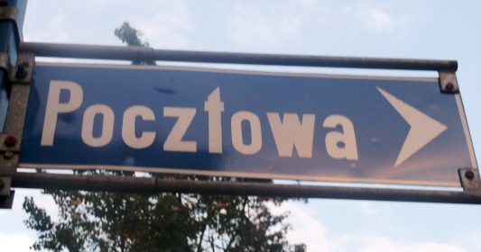 Pocztowa Street in Katowice